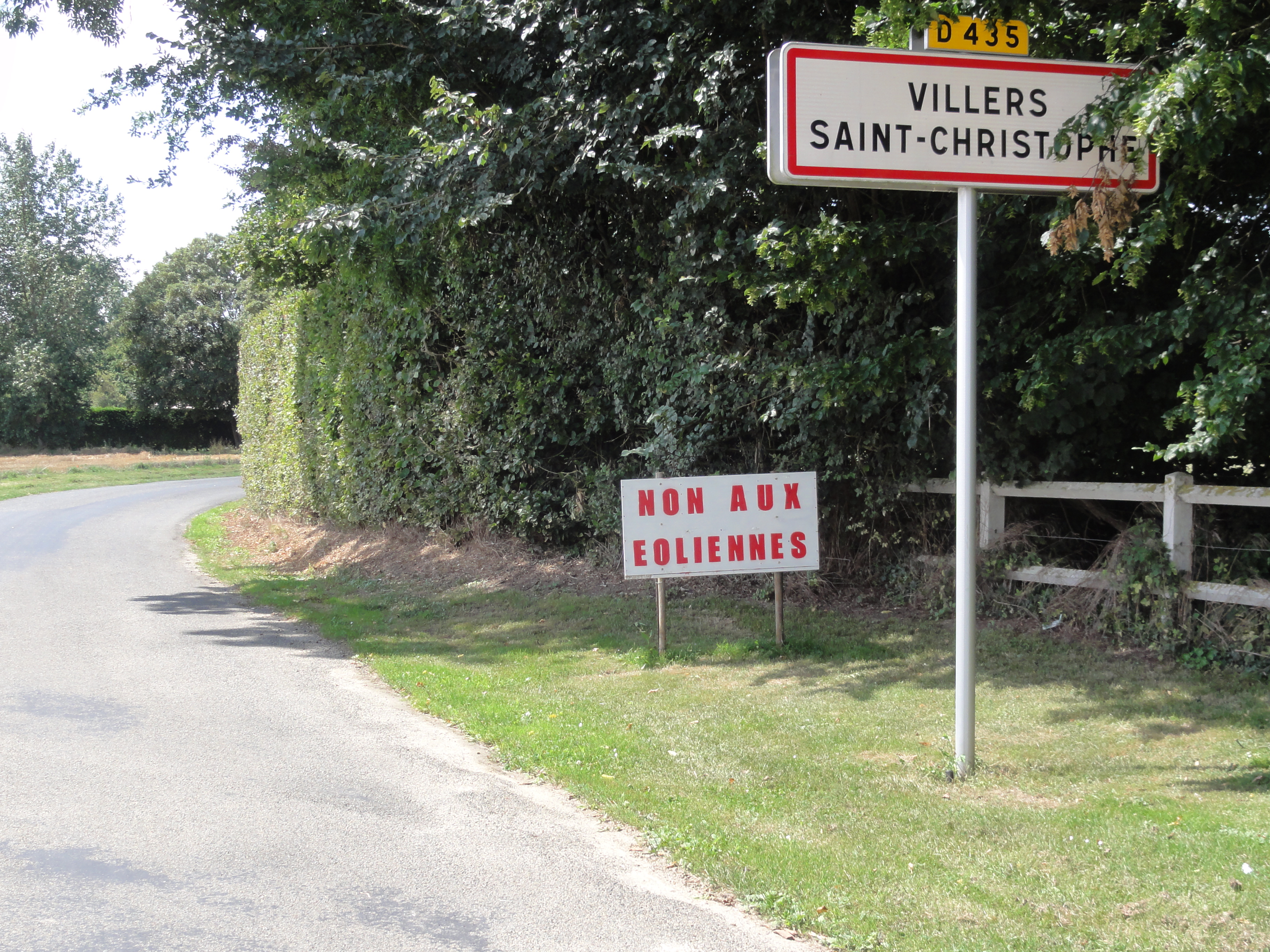 Villers-Saint-Christophe (Aisne) city limit sign